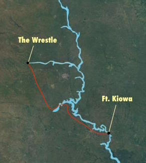 Route of the 1823 odyssey of Hugh Glass from the forks of the Grand River to Fort Kiowa © 2004 Matthew Trump .